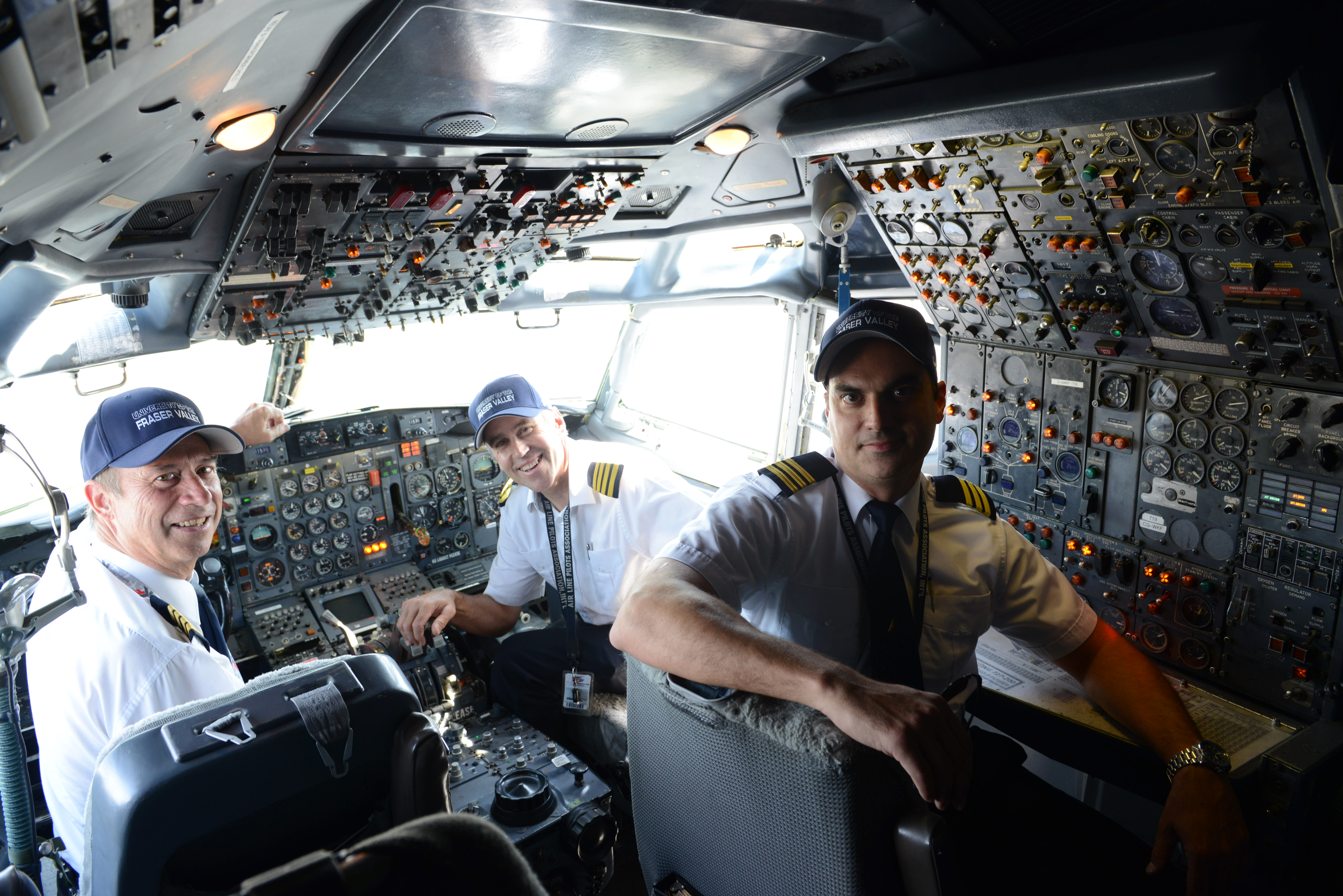 UFV lands Boeing 727 from KF Aerospace